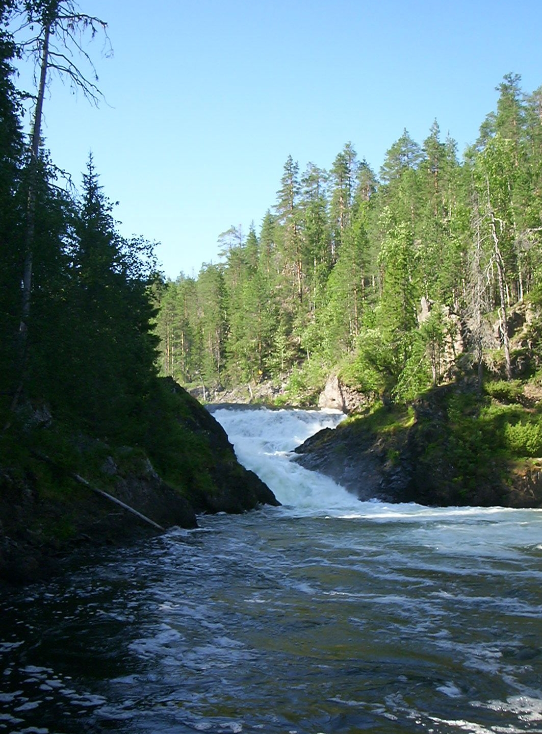 Waterfall in North-Finland